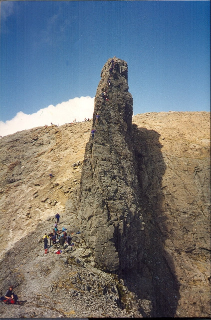 Eastern Ridge, Inaccessible Pinnacle. A notorious blade of rock which justs tops Sgurr Dearg behind. It is supposedly one of the most difficult of the Munros to climb not least because of the crowds of climbers attempting it. Here several parties are on the climb whilst several more are queuing at the bottom.